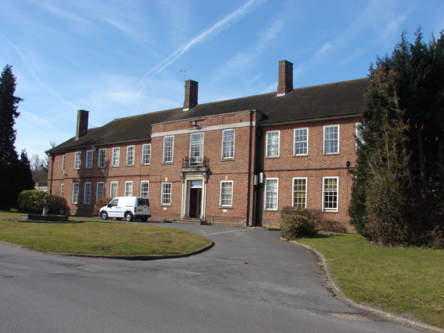 Bournewood House, Chertsey Bournewood House was the main administrative building of the Botley Park mental hospital, built on part of the Botley park estate in the early 20th century. The house is now used as the headquarters of the Bournewood PCT.